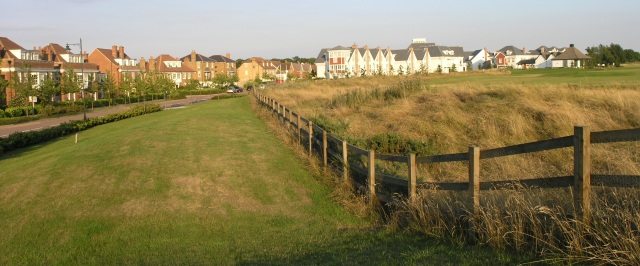 King's Hill Housing Estate. The edge of King's Hill, a new housing estate built on the ground that was originally occupied by West Malling airfield. King's Hill golf course can be seen to the right.